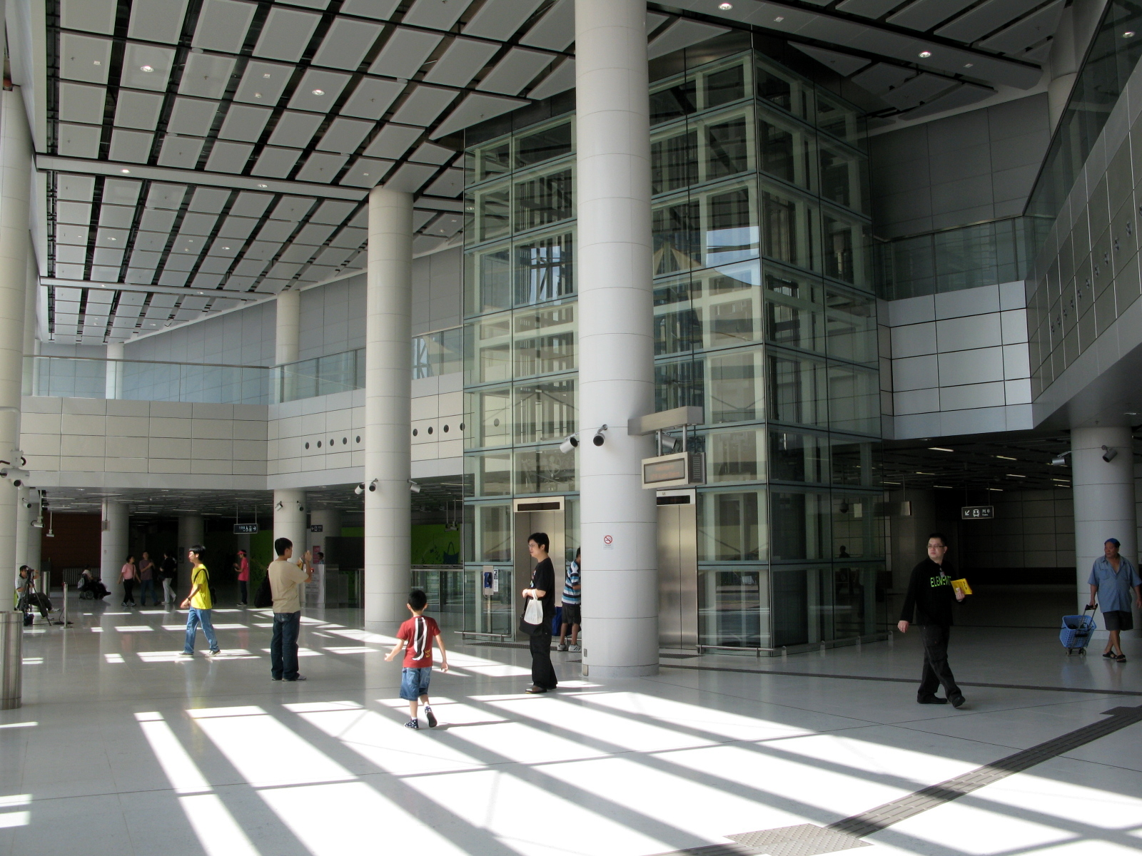 HK Austin Station Level C Concourse 柯士甸站